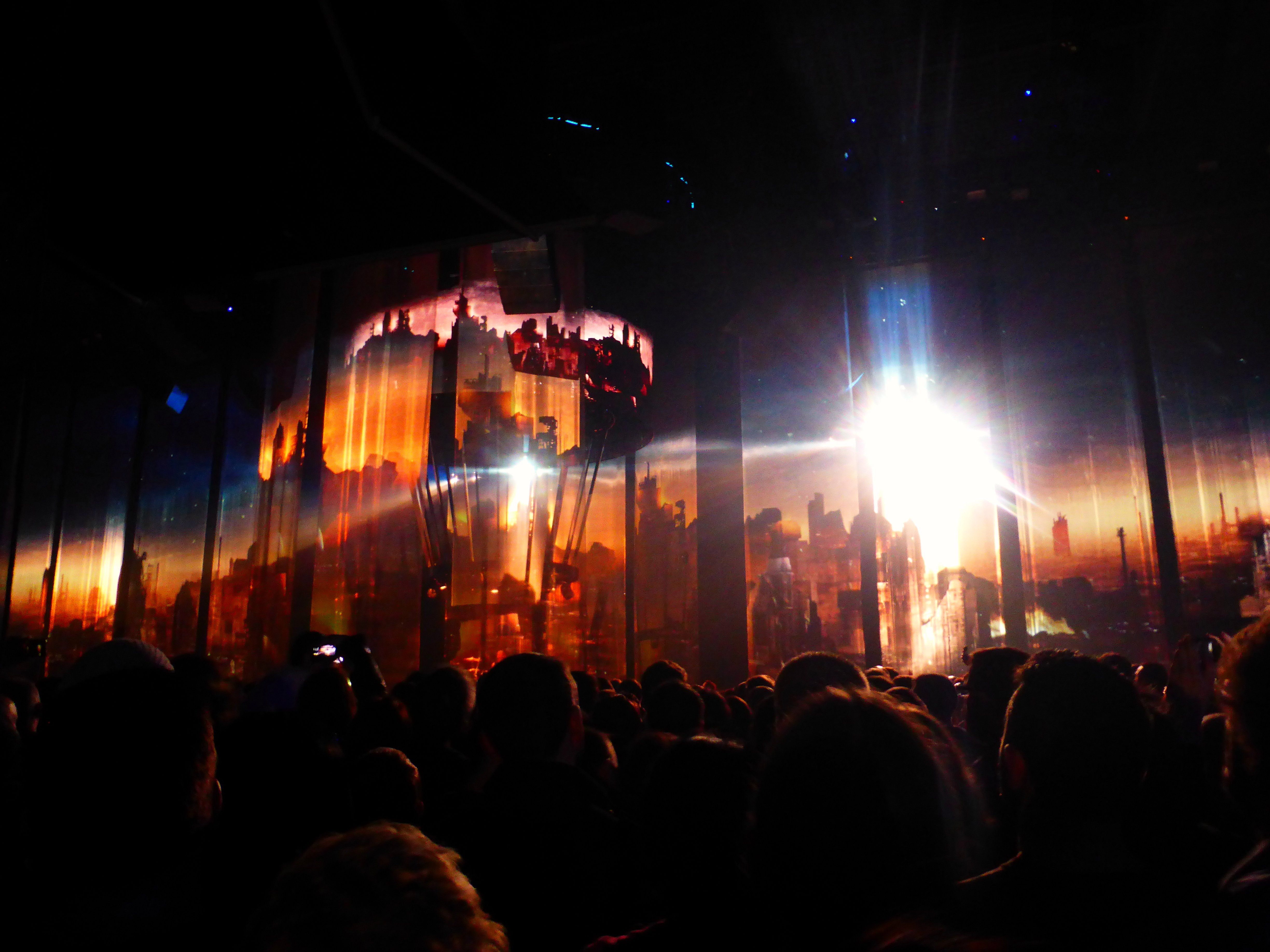 Concert at the 3Arena, part of the Drones World Tour by Muse.